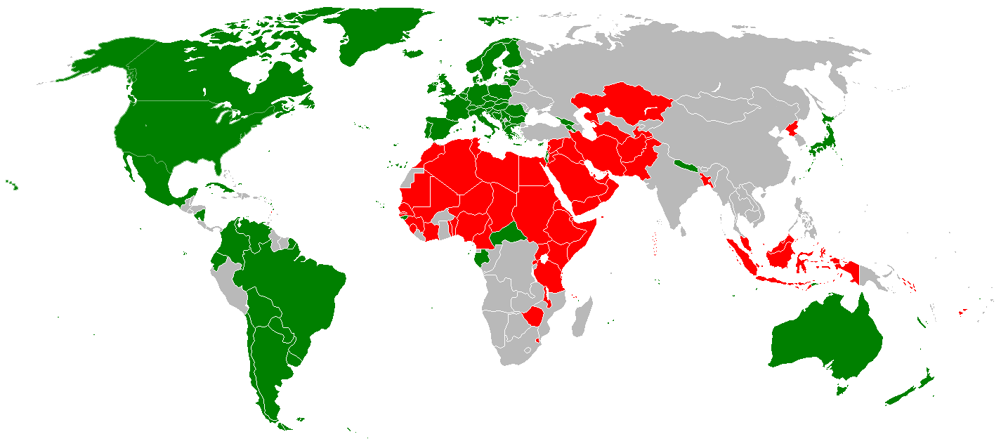 Supporters of the UN declaration on sexual orientation and gender identity; from ILGA. This is a snapshot as of March 2009, and should not be changed. Countries that oppose the declaration; from ILGA.